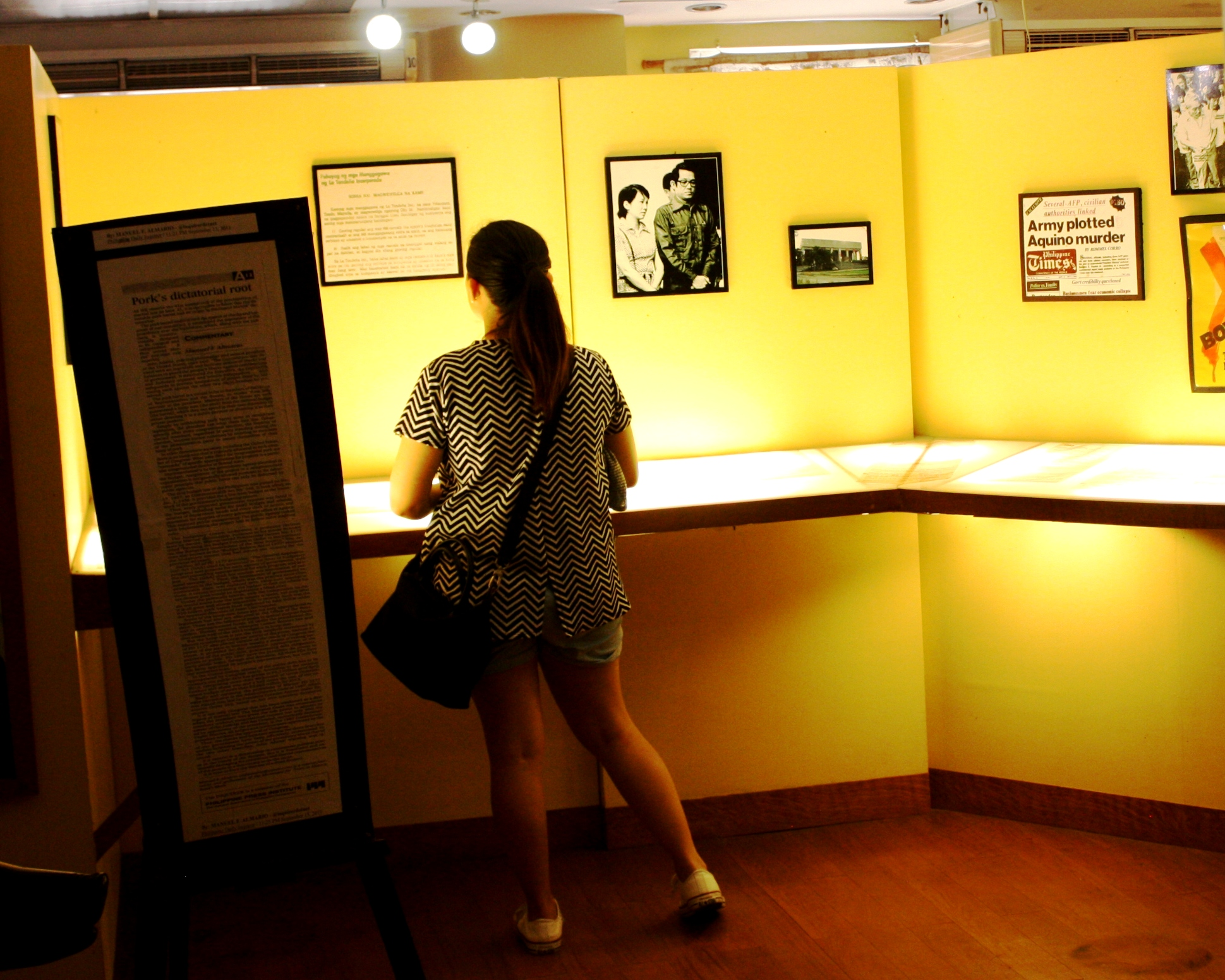 A visitor to the Bantayog ng mga Bayani Museum browses through a timeline of the EDSA Revolution, one of the last sequences in the Museum's coverage of protest movements against the Marcos dictatorship.